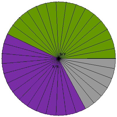 addition: 3/7 + 2/5 = 29/35